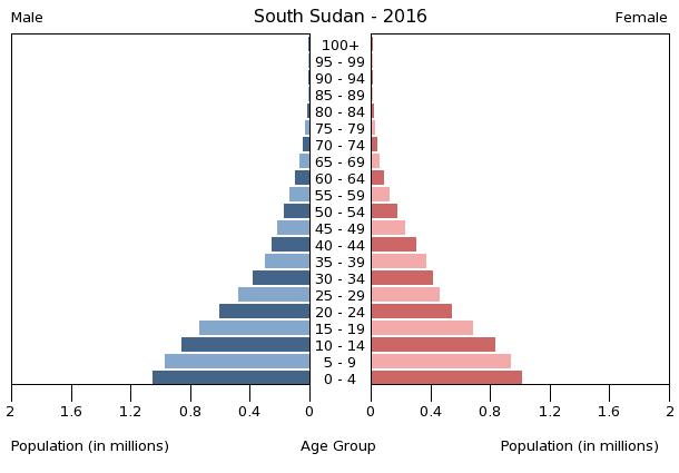 The population pyramid of South Sudan illustrates the age and sex structure of population and may provide insights about political and social stability, as well as economic development. The population is distributed along the horizontal axis, with males shown on the left and females on the right. The male and female populations are broken down into 5-year age groups represented as horizontal bars along the vertical axis, with the youngest age groups at the bottom and the oldest at the top. The shape of the population pyramid gradually evolves over time based on fertility, mortality, and international migration trends.